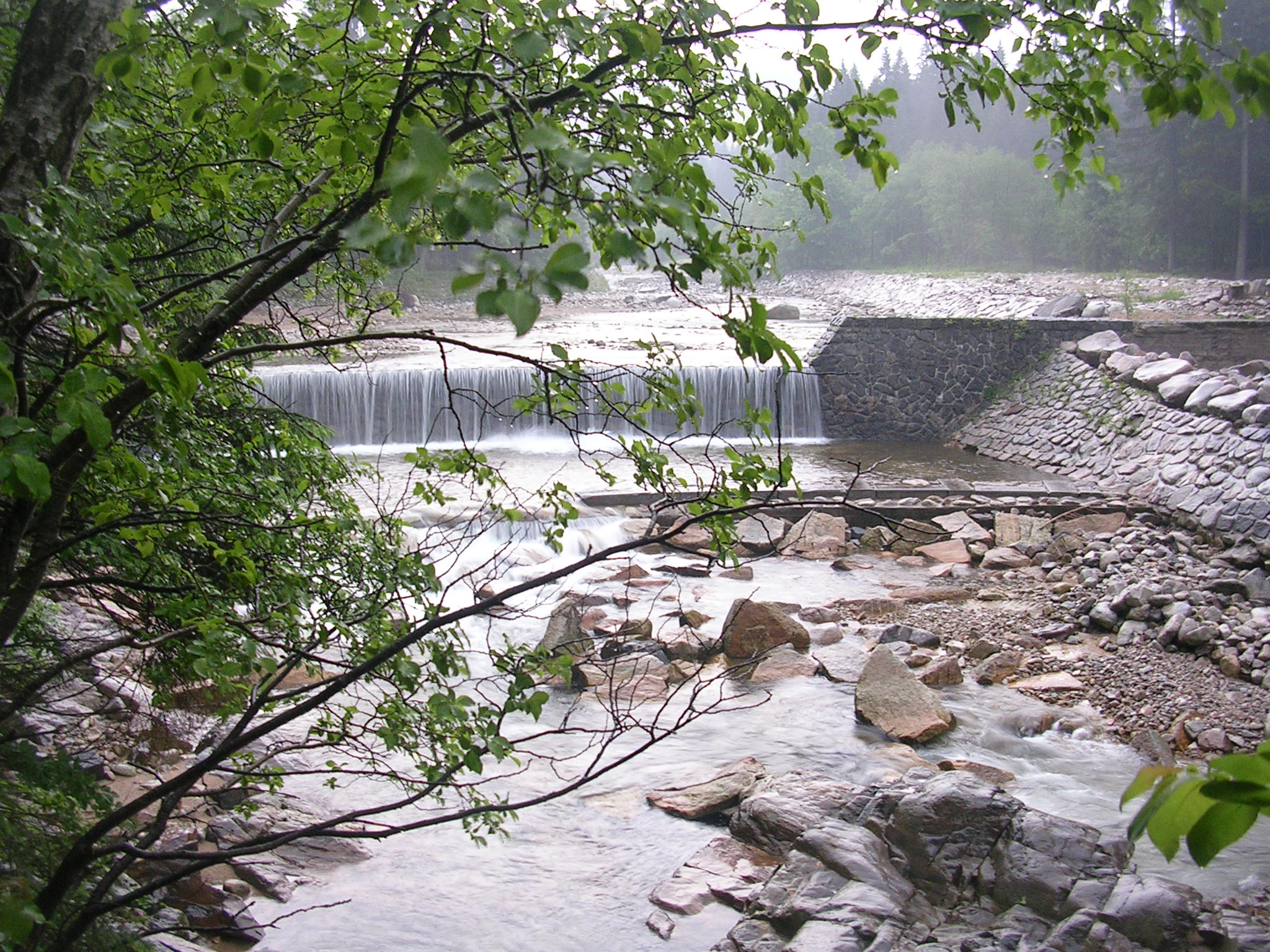 Giant Mountains. Elbe.